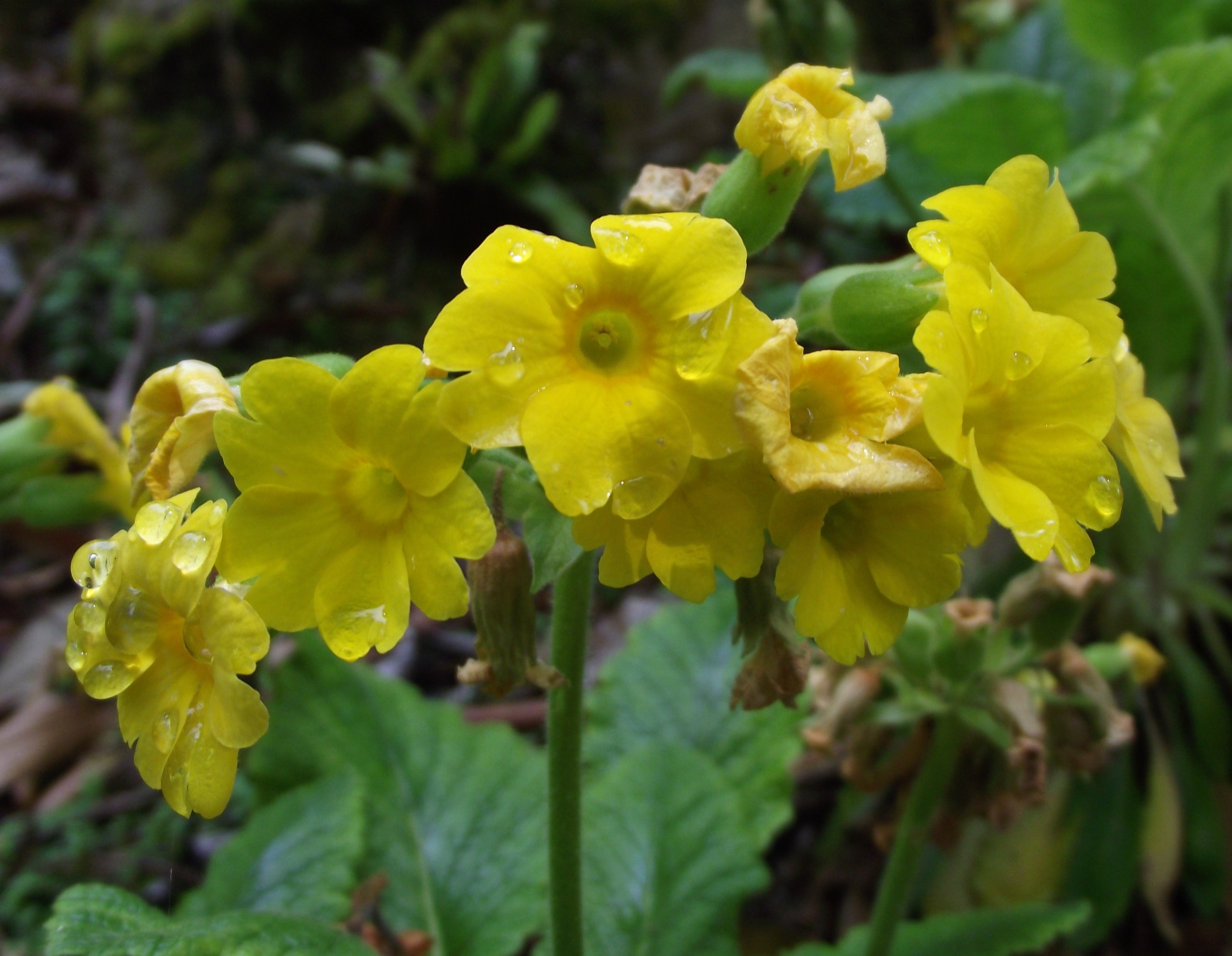 Primula forrestii in the UC Botanical Garden, Berkeley, California, USA. Identified by sign.